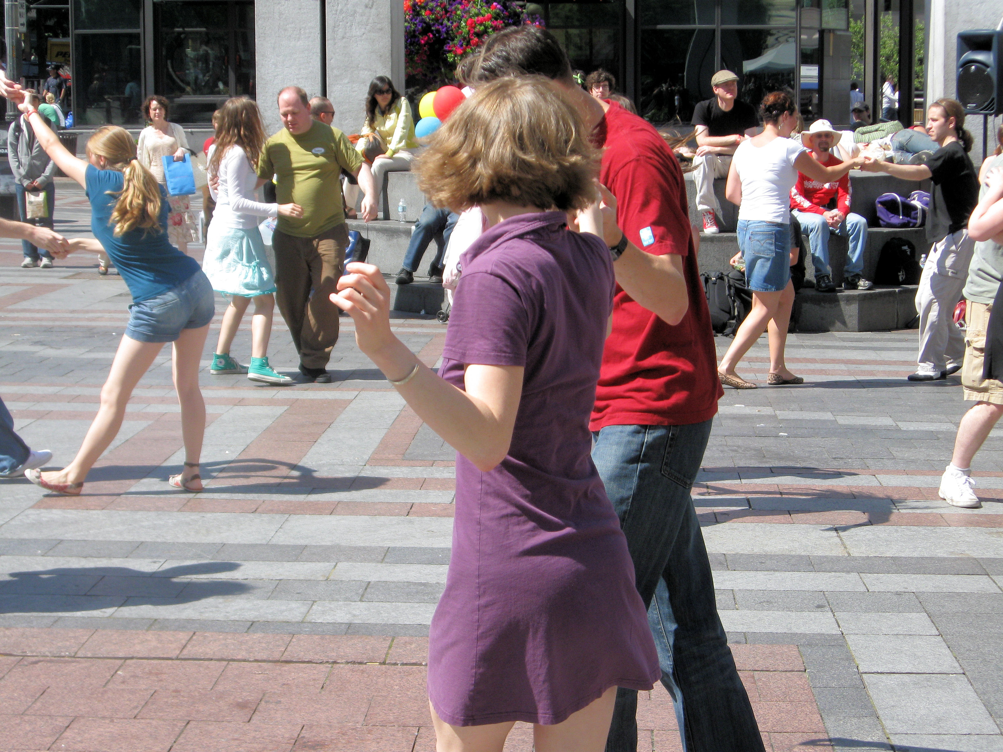 Dancers in Westlake Center, Seattle, Washington, USA